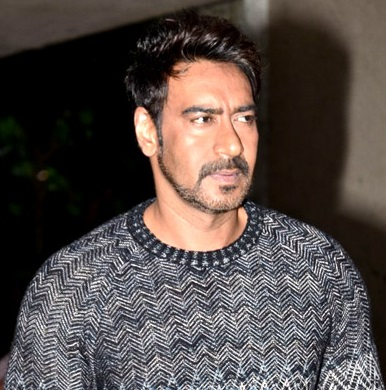 Ajay Devgn snapped at 'Action Jackson' photoshoot